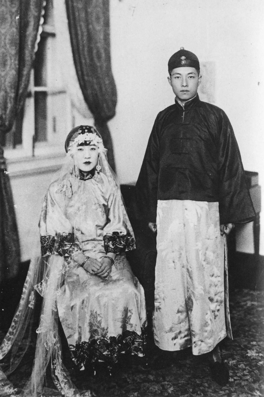 Kawashima Yoshiko's wedding to Ganjuurjab in Dalian.